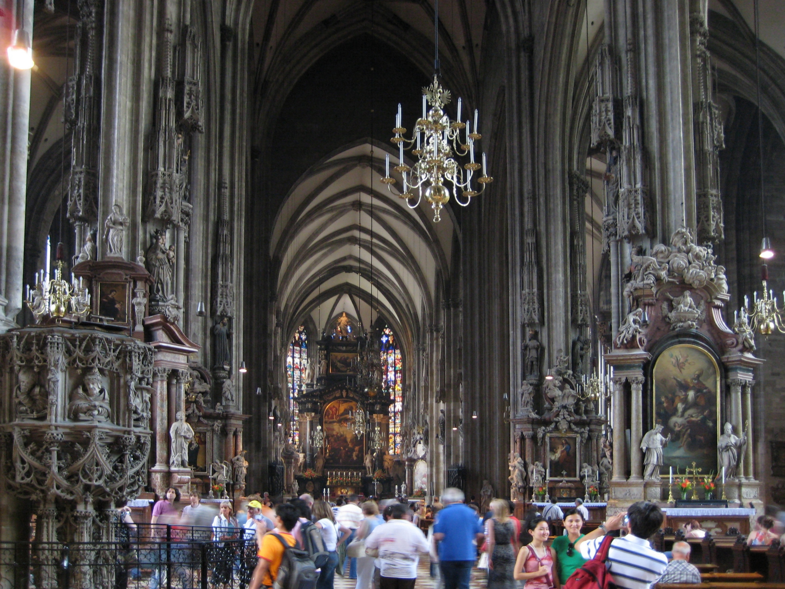 St. Stephen's Cathedral, Vienna, central aisle